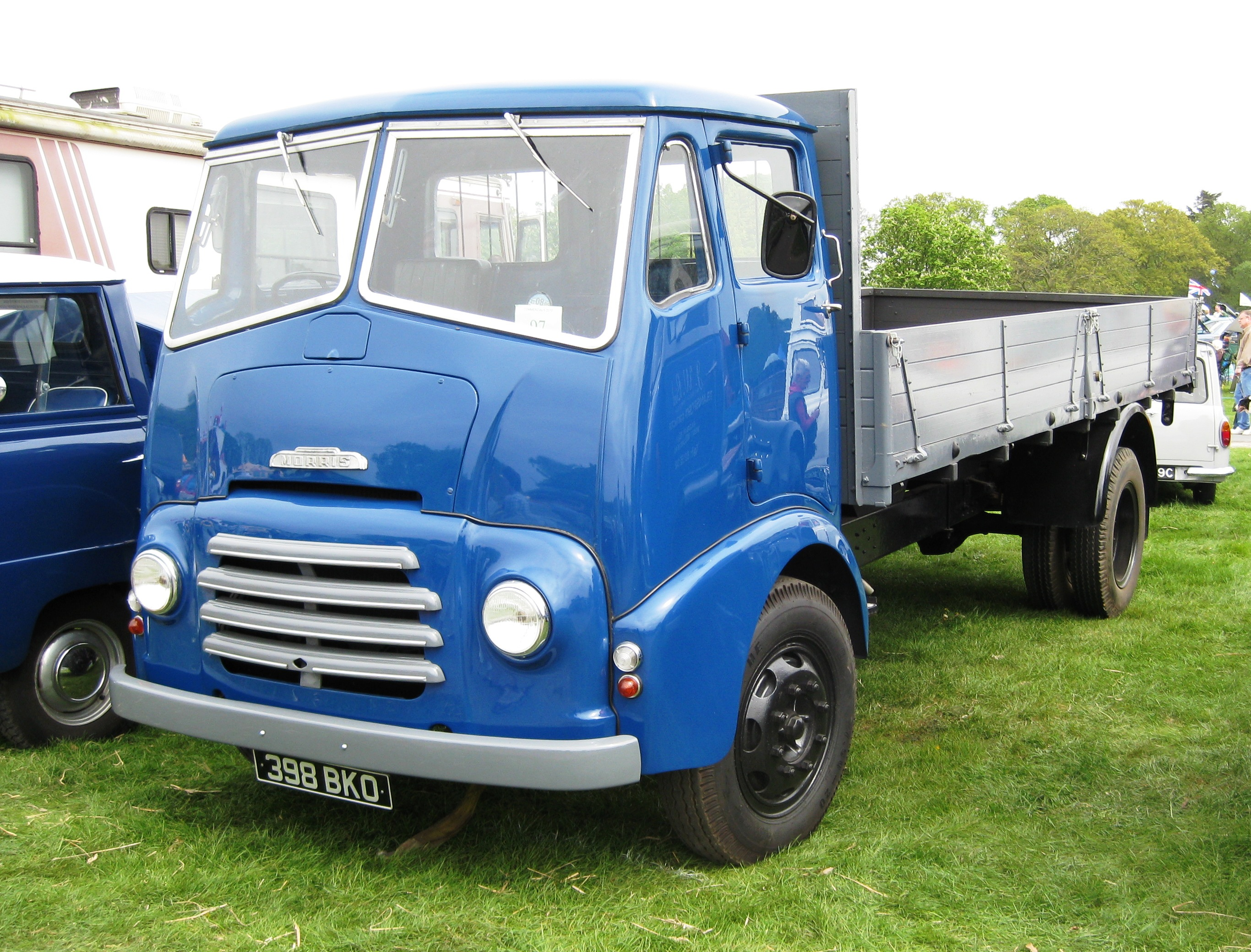 Morris light truck (1958) at Weston Park Transport Fair